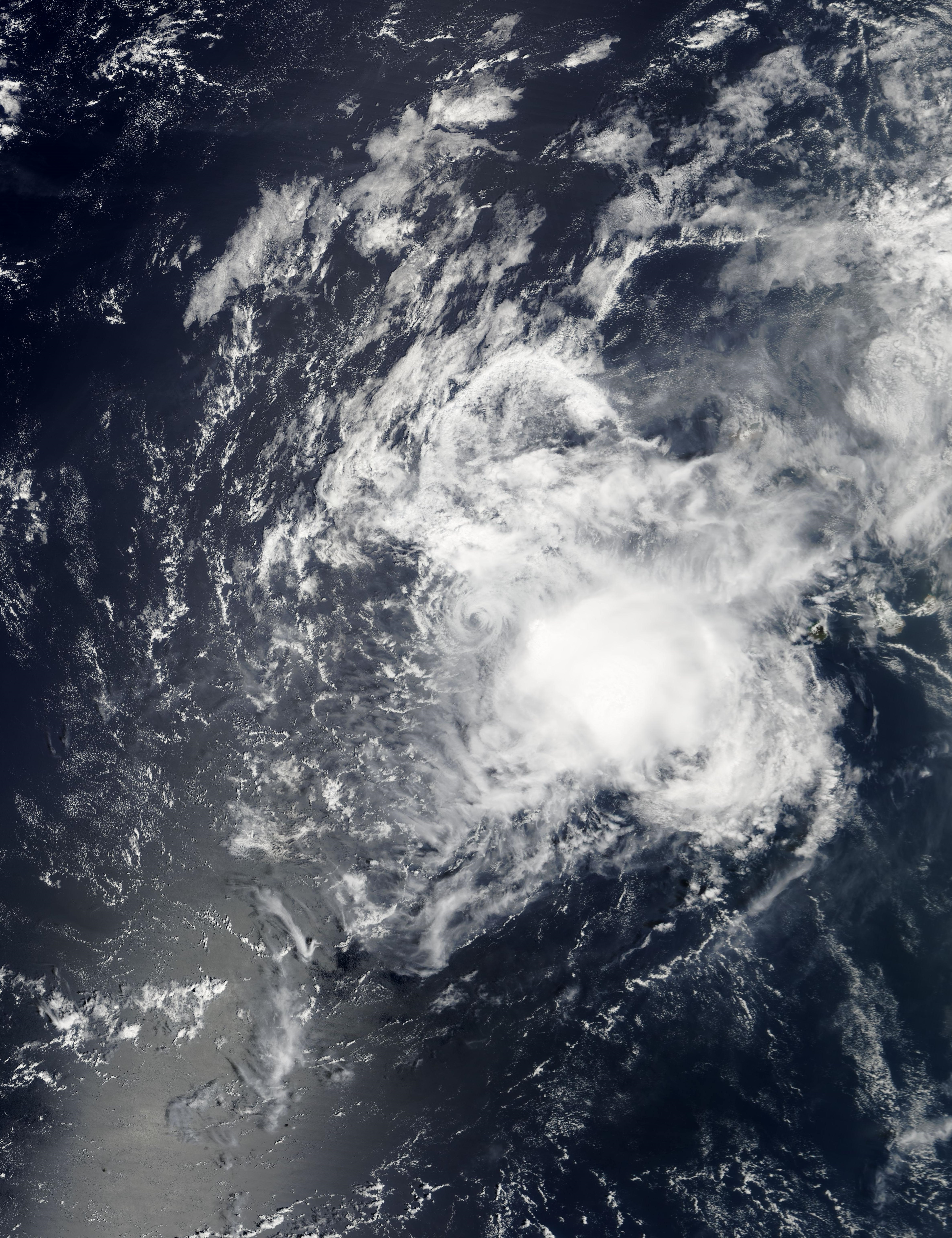 Tropical Storm Melissa at approximately 1245 UTC on September 29, as seen by the MODIS instrument aboard NASA's Terra satellite.